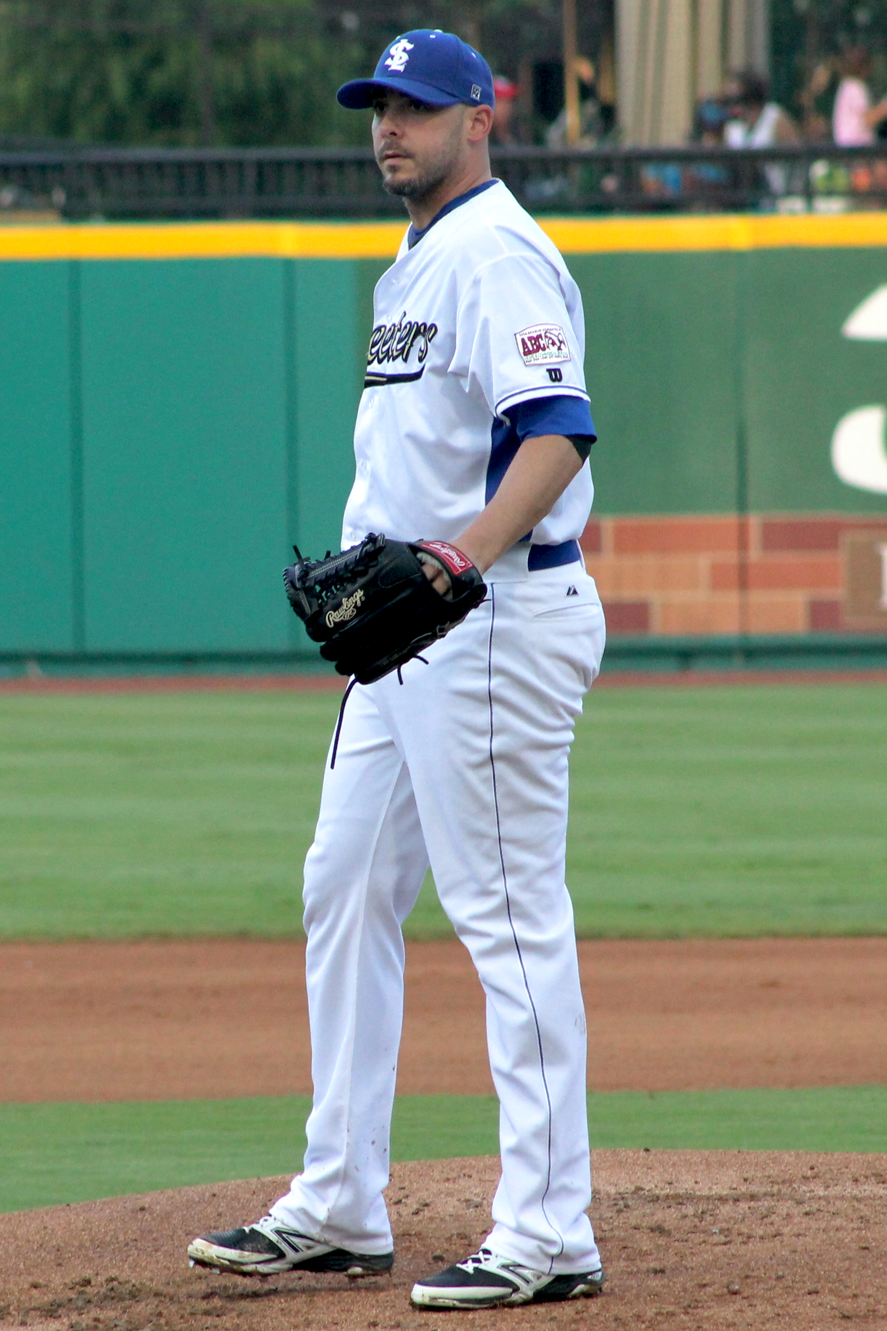 Pitcher David Pauley of the Sugar Land Skeeters during a July 2014 game